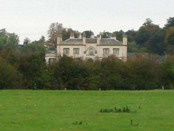 Wiverton Hall, near Tithby, Nottinghamshire. Wiverton Hall just south of Tithby was held by the kings' men from 1643 to 1645, controlling movement across this part of the Vale. There is a Civil War Battery in the grounds. Mrs Chaworth Musters wrote the book "A Cavalier Stronghold - a romance of the Vale of Belvoir" in 1890. The Chaworth family had owned Wiverton since the reign of Edward III.